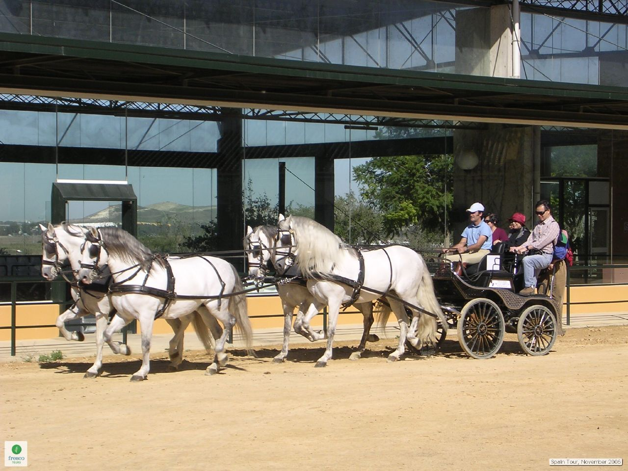 Yee-haa! Getting a horse and carriage ride! According to all horses in the set are carthusian horses